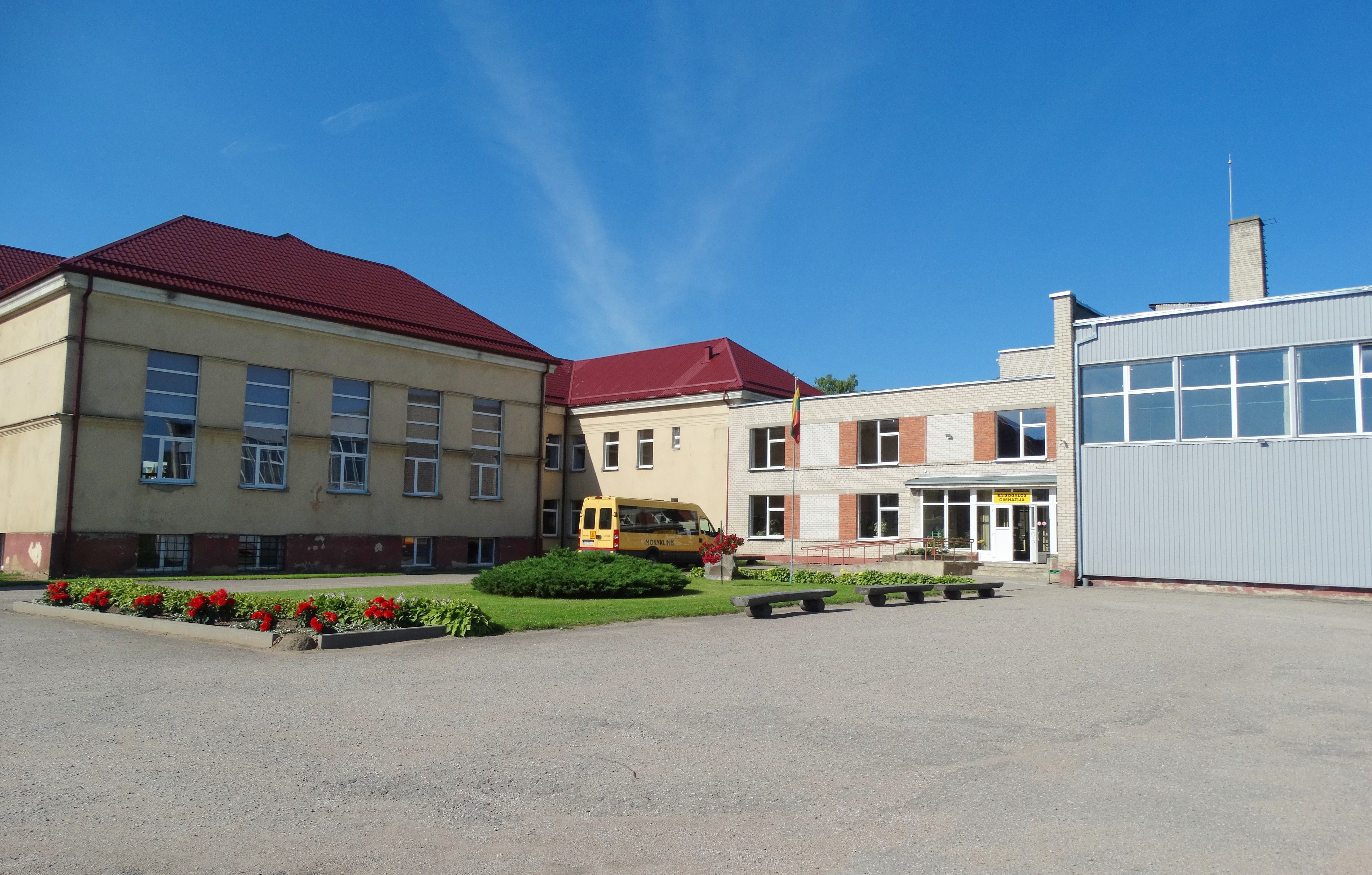 Gymnasium, Baisogala, Radviliškis District, Lithuania